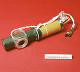 The dual mode Vector/Scalar Helium Magnetometer (V/SHM) instrument, flown on the Cassini mission.